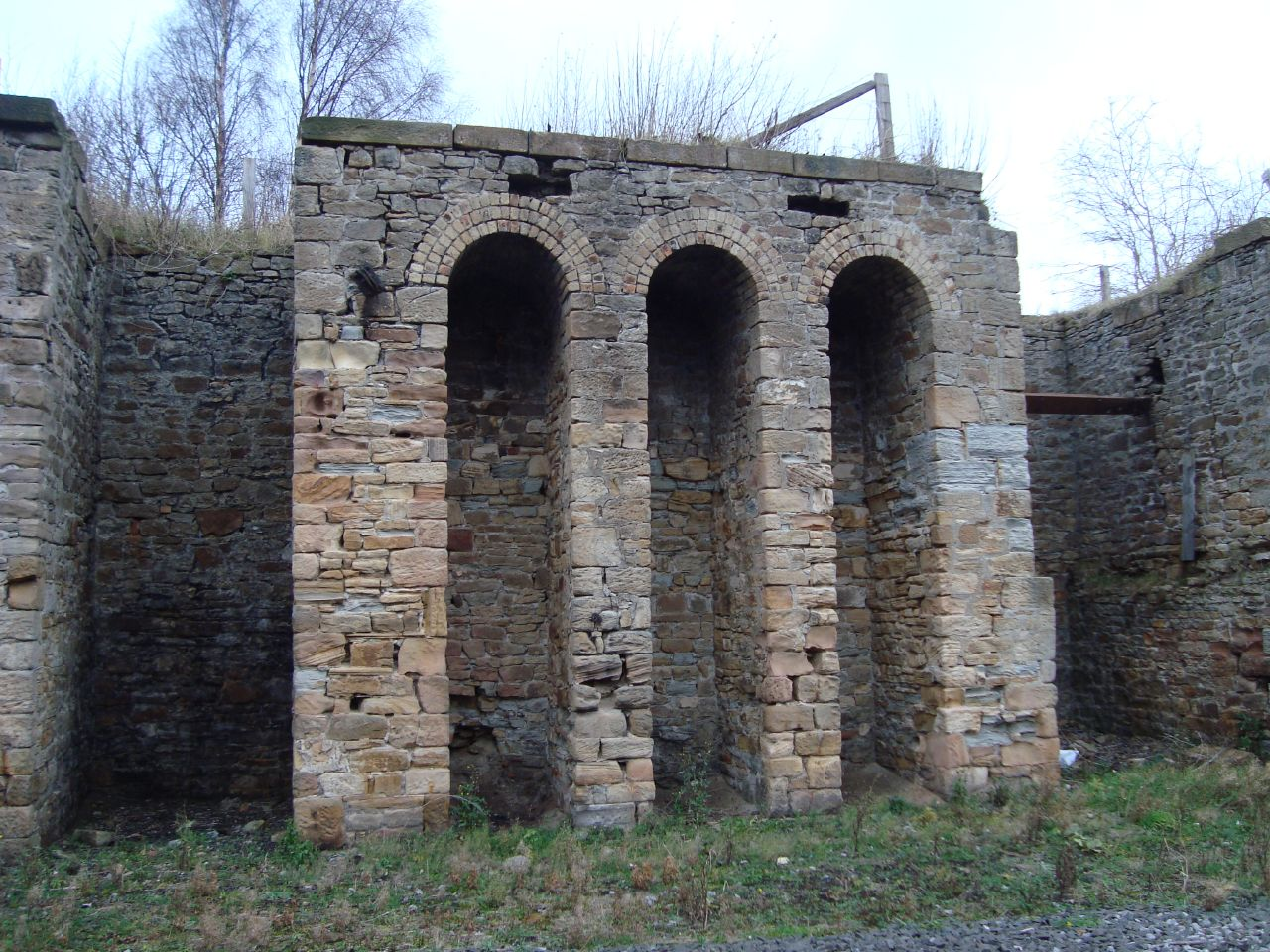 ... at 'Locomotion' Shildon ...